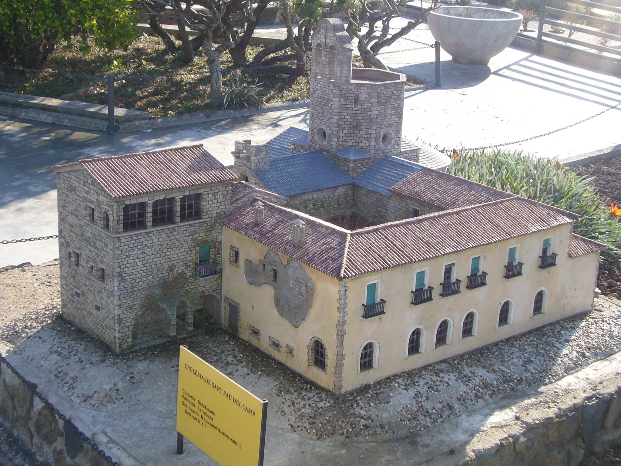 Scale model at the "Catalunya en Miniatura" miniature park : Church and monastery of Sant Pau del Camp